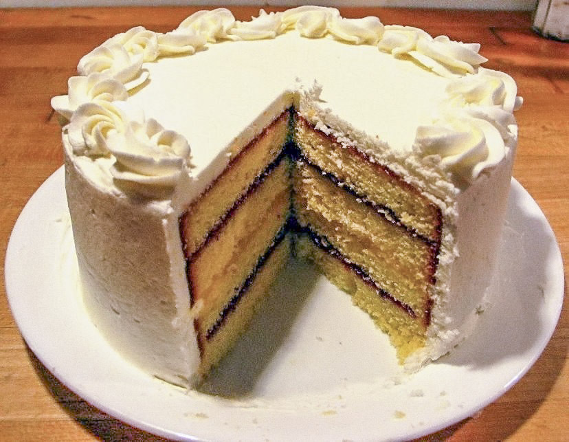 A layered pound cake, with alternating interstitial spaces filled with raspberry jam and lemon curd, finished with buttercream frosting.